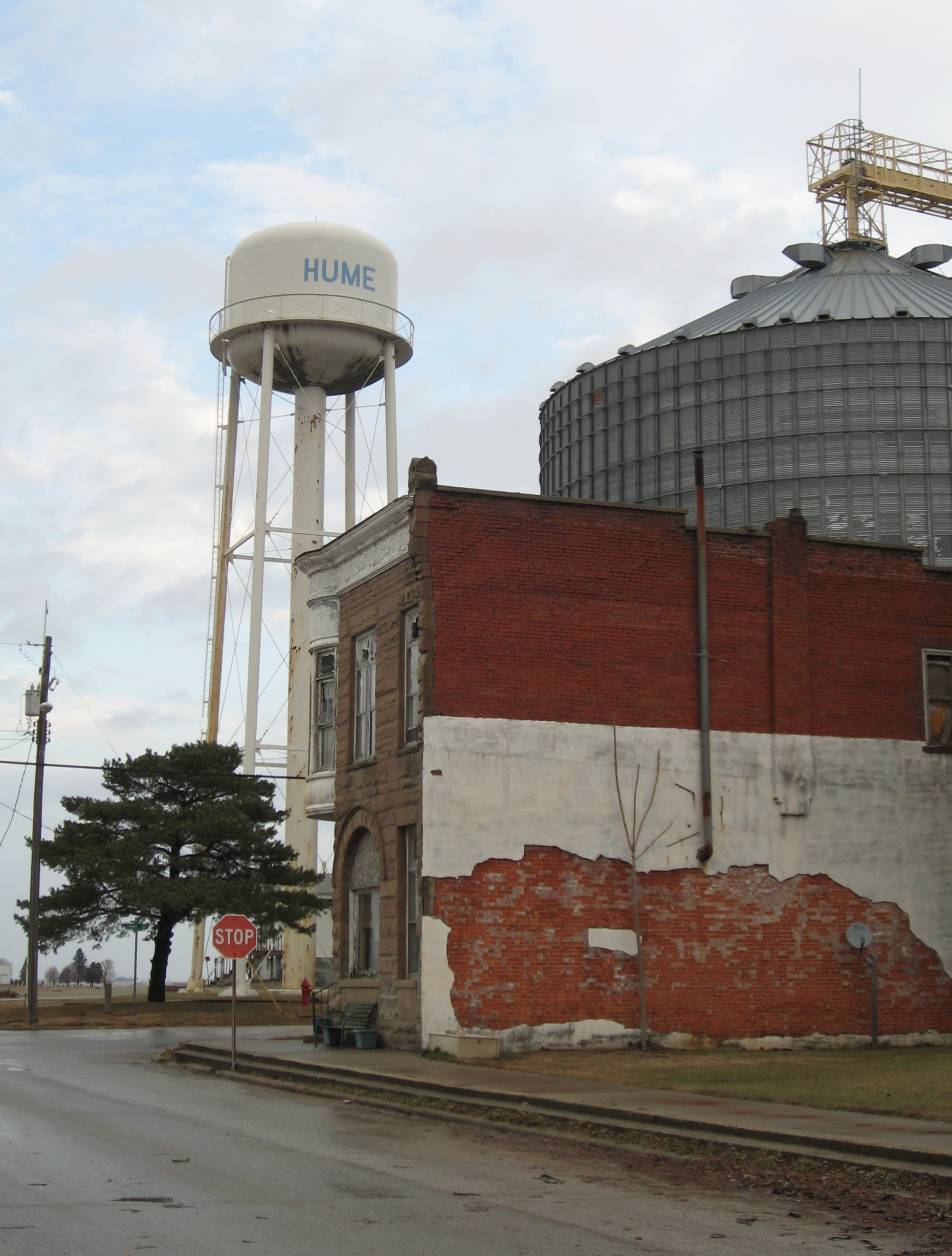 View of Hume, Illinois, USA from northern end of Center Street. Village water tower pictured.